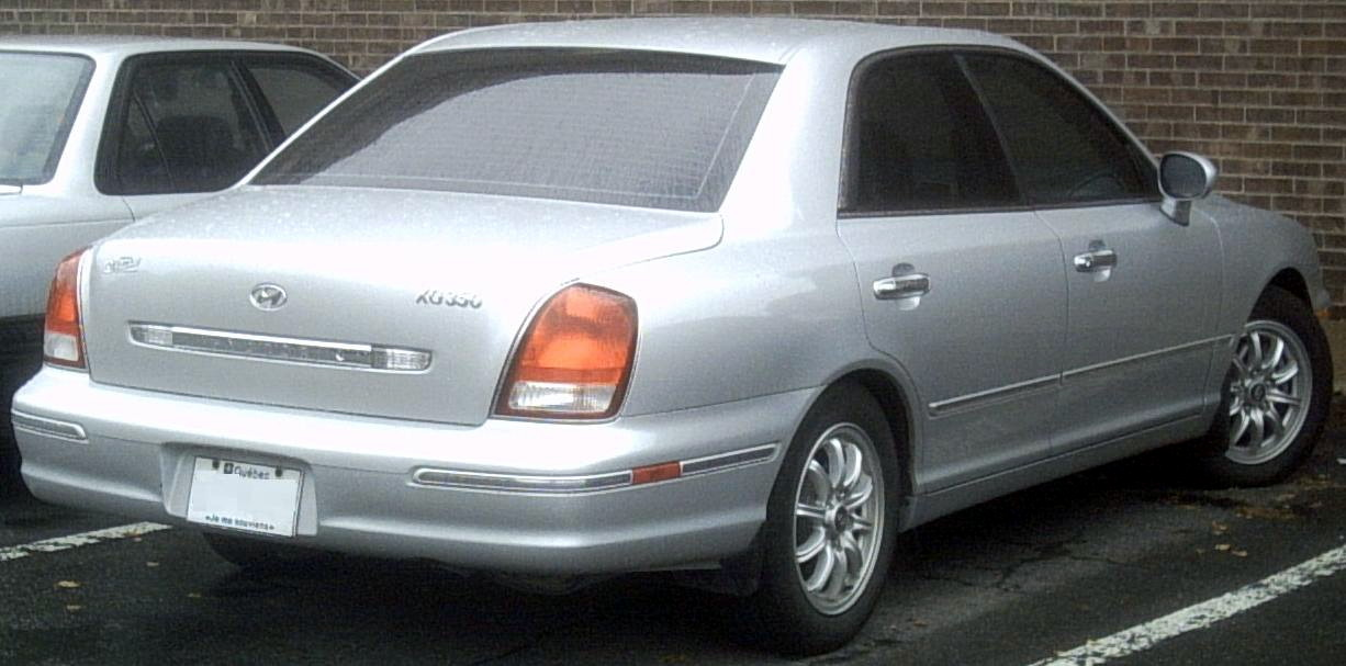 2002-03 Hyundai XG350 photographed in Montreal, Quebec, Canada.